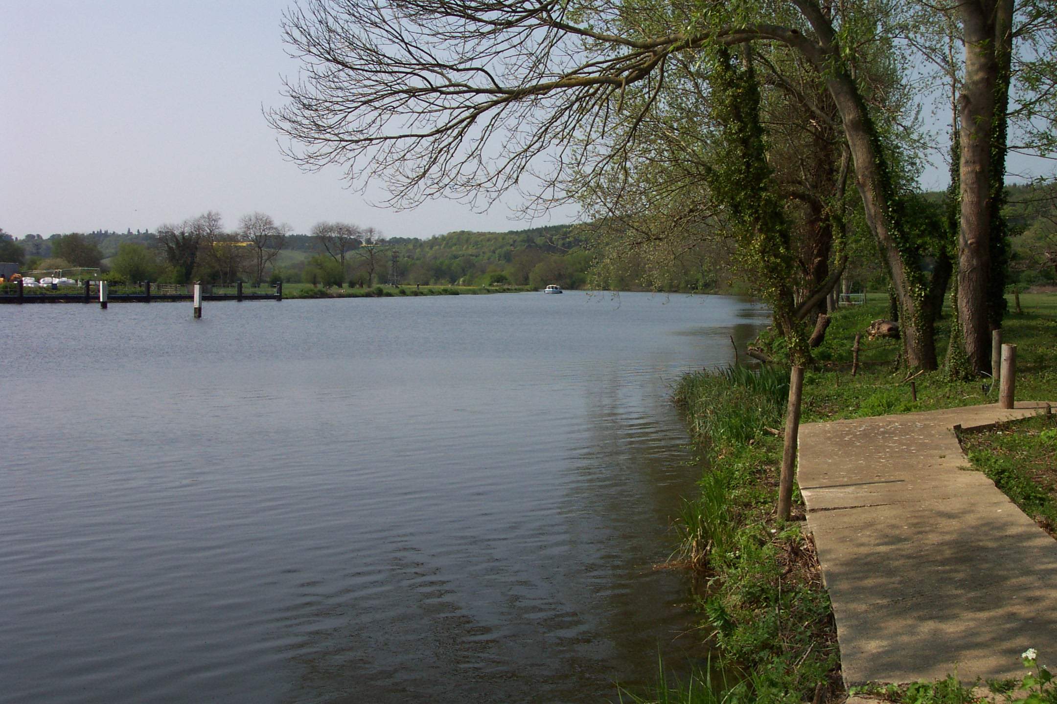 The River Thames above Mapledurham Lock, Purley-On-Thames, Berkshire, England. Viewed from the Mapledurham, Oxfordshire side of the river. For more information, see Mapledurham Lock.